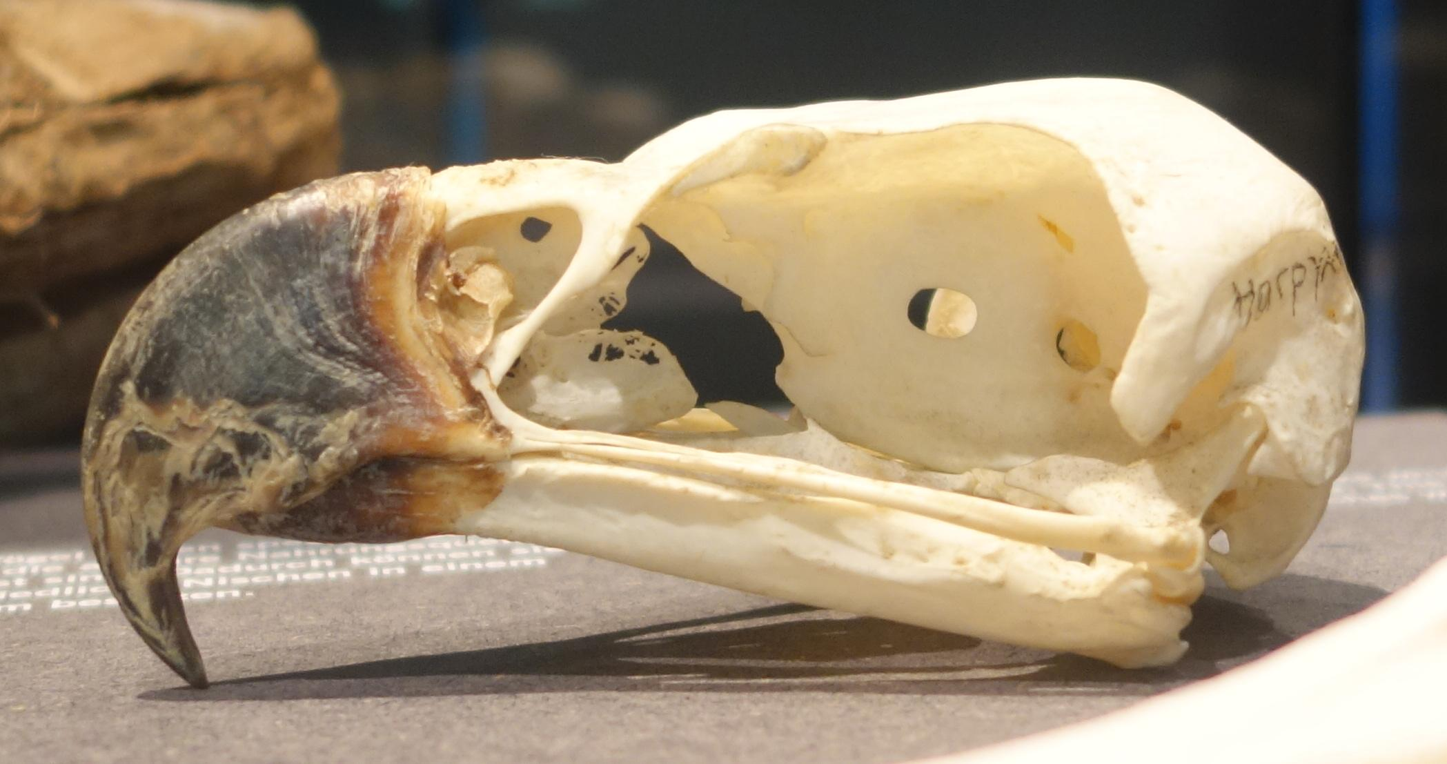 Skull of Harpia harpyja, on exhibit at the Museum für Naturkunde, Berlin